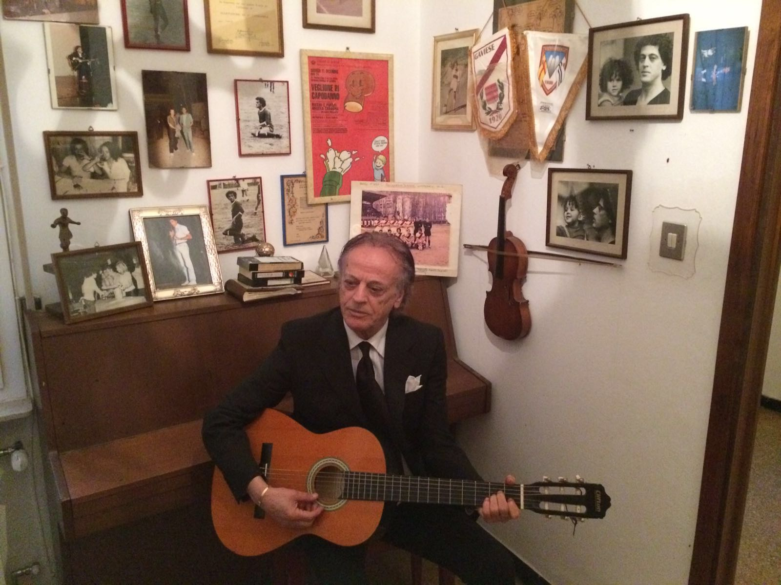 Photo of Italian tv-personality Orlando Portento